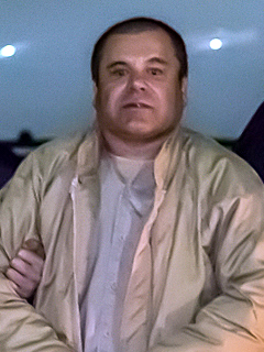 Joaquín Guzmán Loera a.k.a "El Chapo" in US custody after his extradition from Mexico.